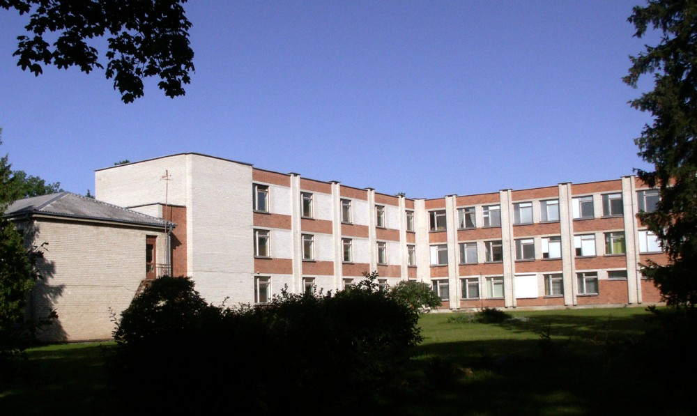 School in Bubiai, Šiauliai district, Lithuania